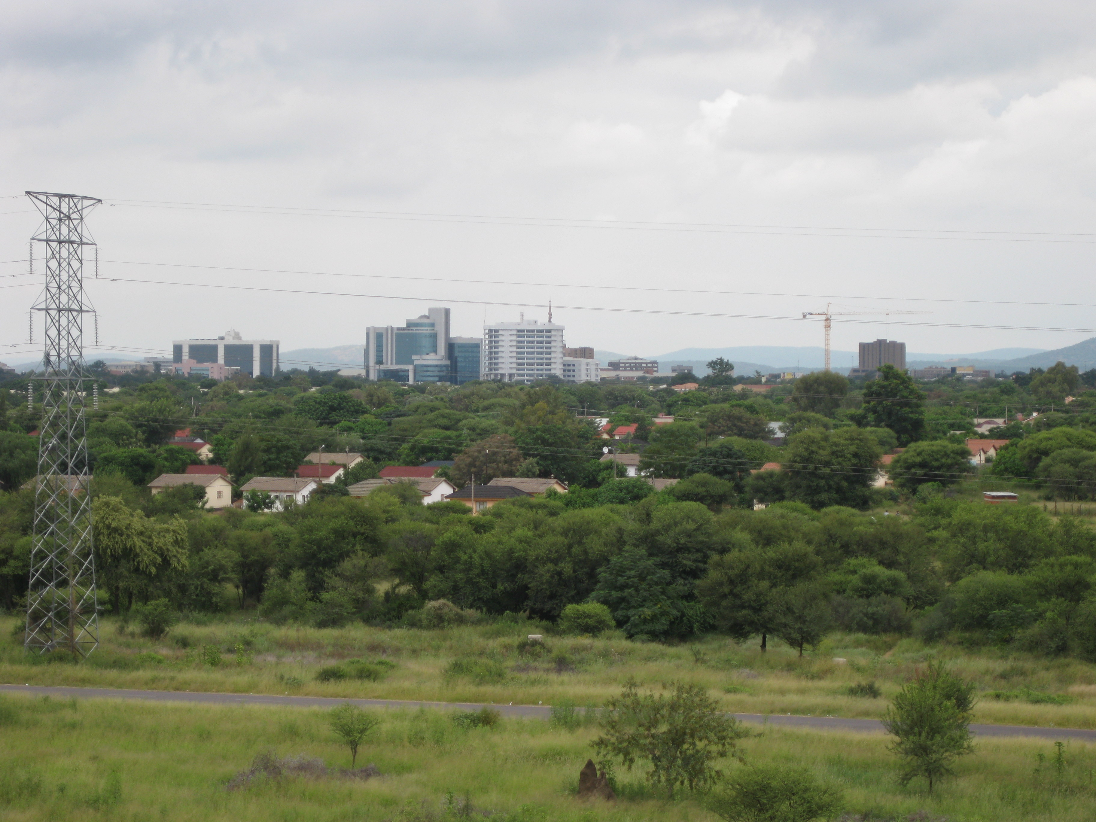 Skyline of Gaborone, Botswana